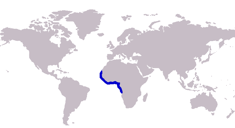 Distribution of Senegal jack, Caranx senegallus using map based on GDFL image